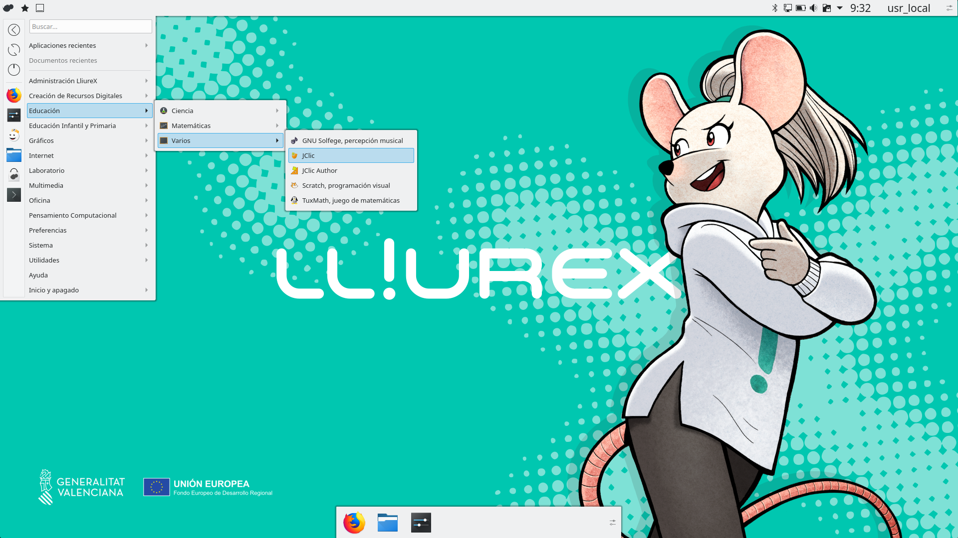 LliureX 19 Screenshot, desktop version. LliureX is a Linux distribution based on KDE Neon, oriented to the educational environment of the Generalitat Valenciana (Spain)